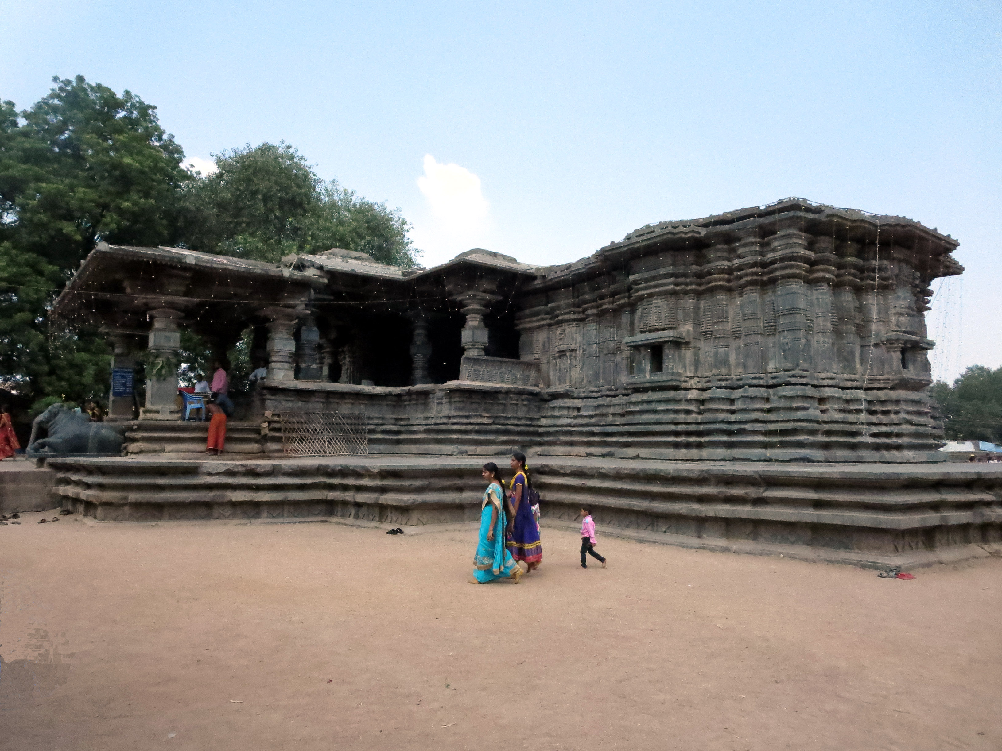 Thousand pillar temple, Warangal